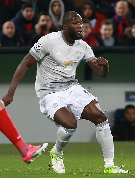 Manchester United footballer Romelu Lukaku in 2017 UEFA Champions League game against CSKA Moscow in September 2017